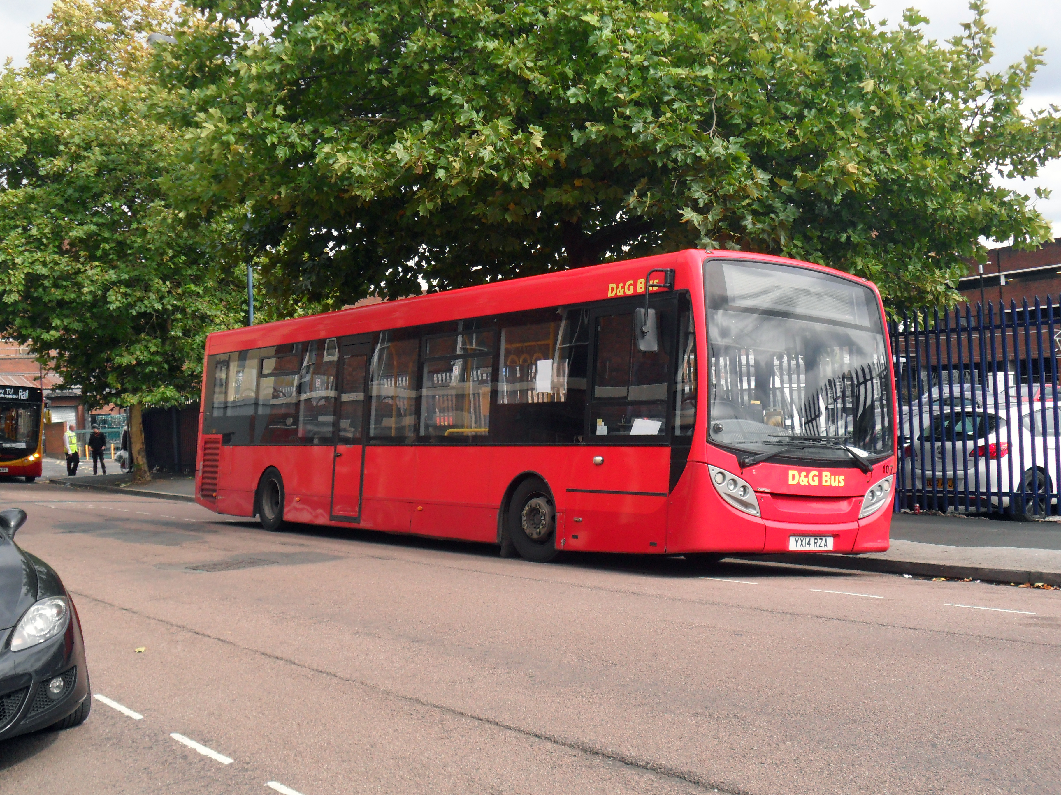 Alexander Dennis Enviro 200 operated by D&G Bus, parked outside Walsall Railway Station on rail replacement duties.